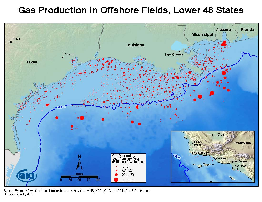 U.S. offshore natural gas production wells in the Gulf of Mexico and Southern California.